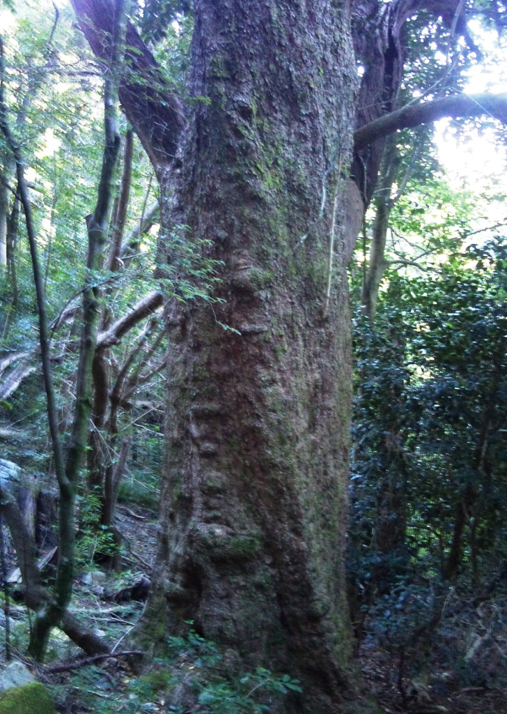 Enormous trunk of Olinia Ventosa tree. Cape Town indigenous afrotemperate forest.